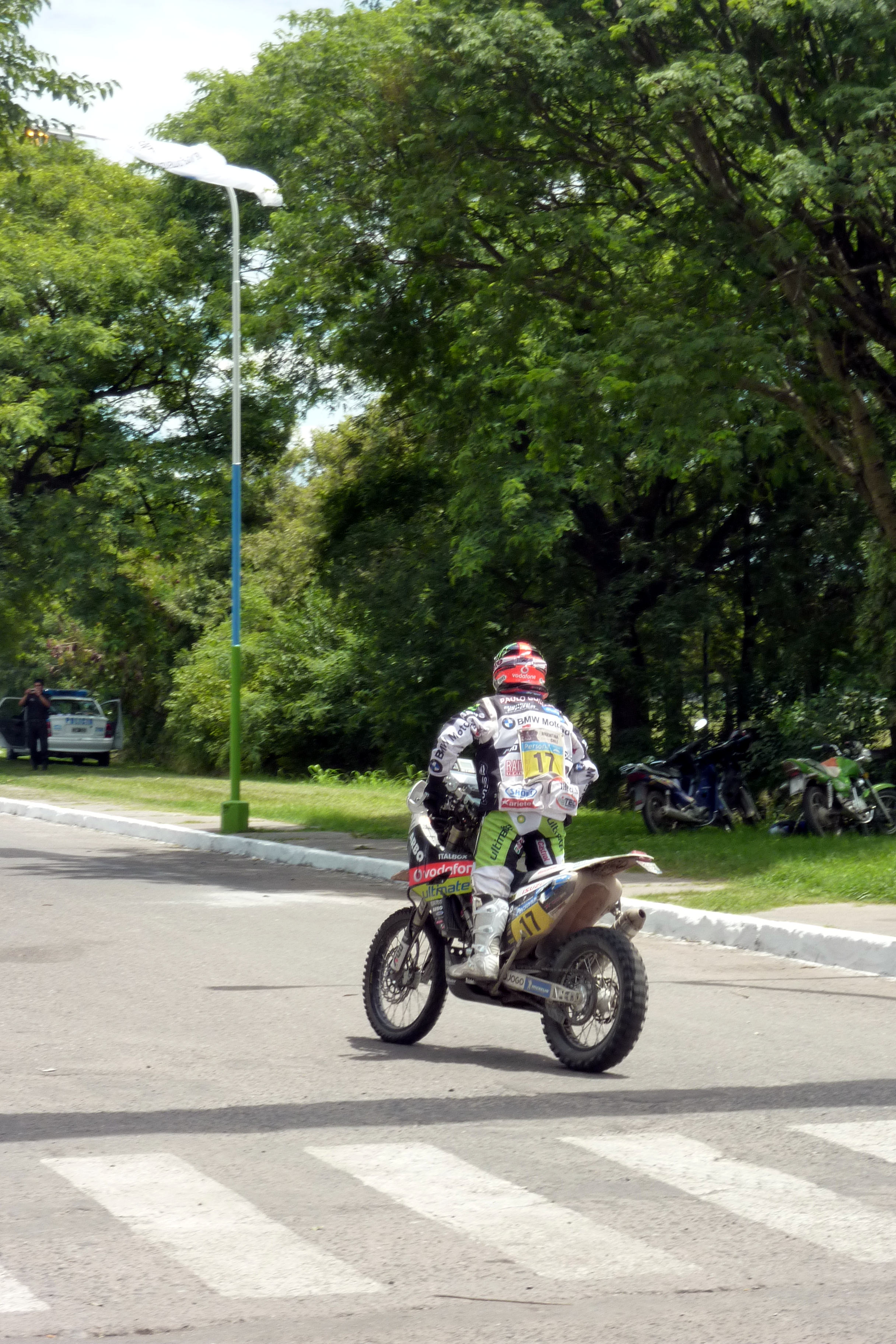 A BMW G 450 X during the 2011 Dakar Rally. The photo was taken after the 2nd stage in San Miguel de Tucumán. The driver of the bike is Paulo Gonçalves.